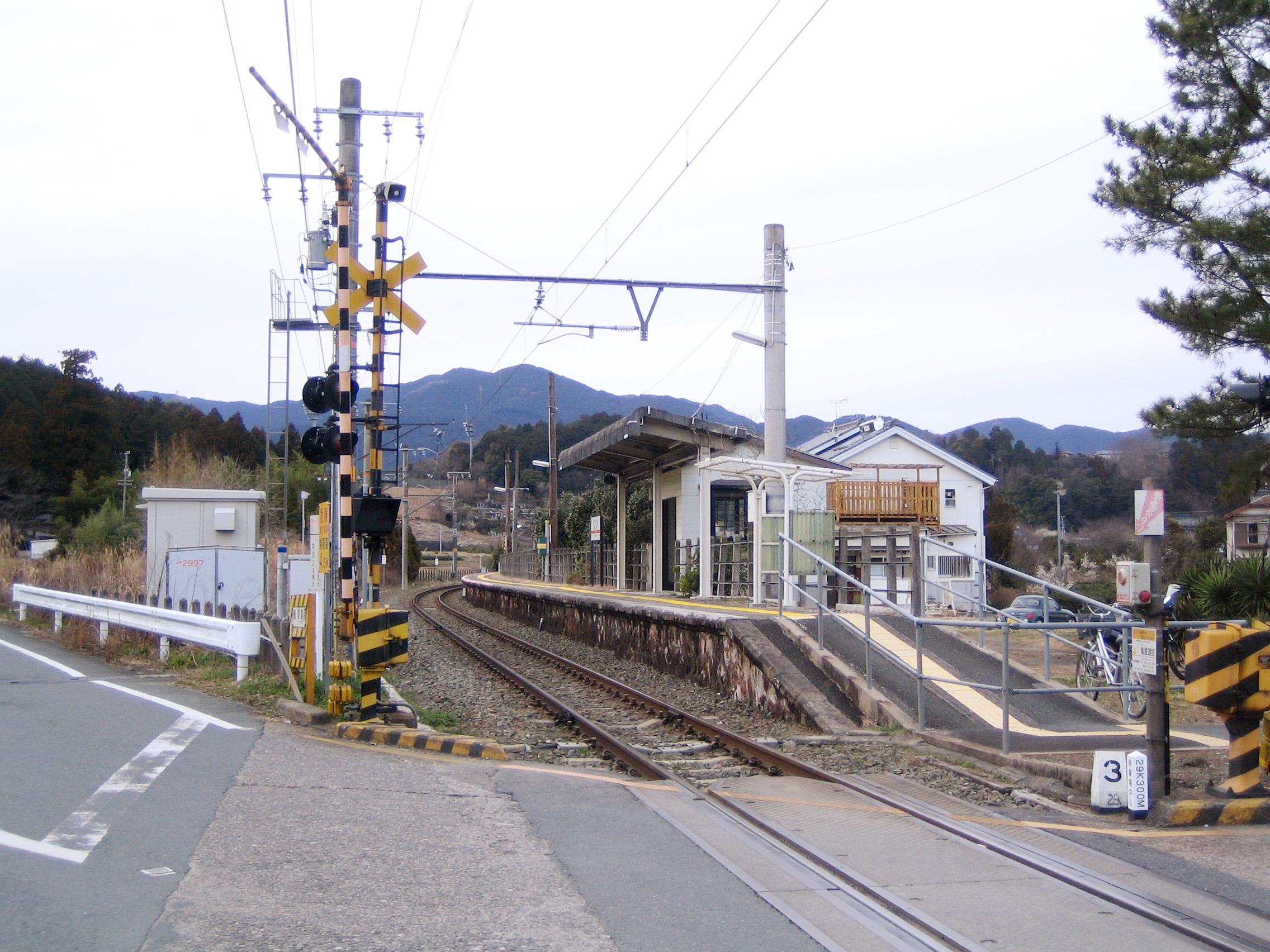 鳥居駅。愛知県新城市 Torii Station (鳥居駅 Torii Eki), located in Shinshiro, Aichi, Japan